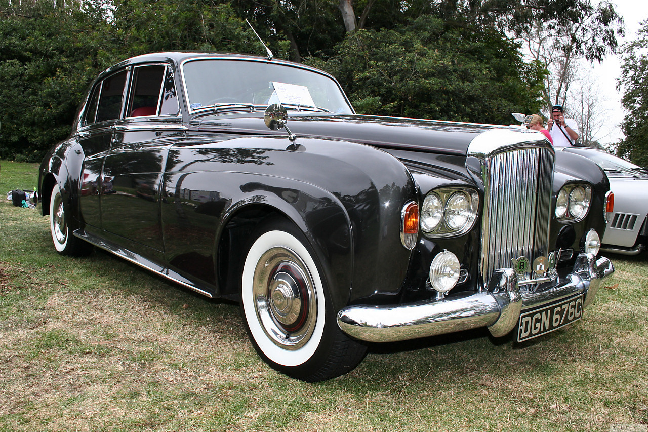 Bentley S3 1964 (1965 plate)